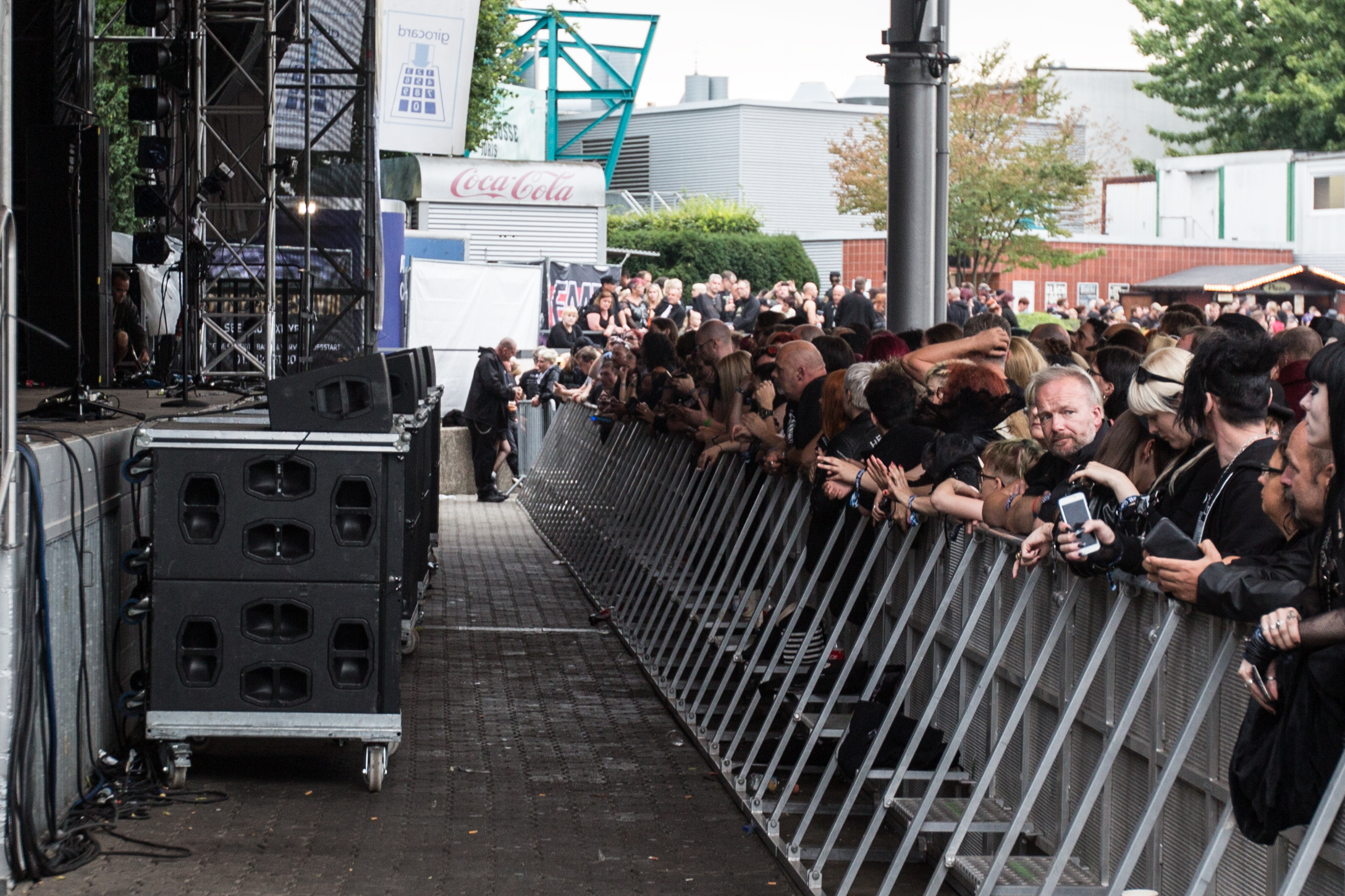 Security pit at the Amphi Festival 2017 in Cologne, Germany